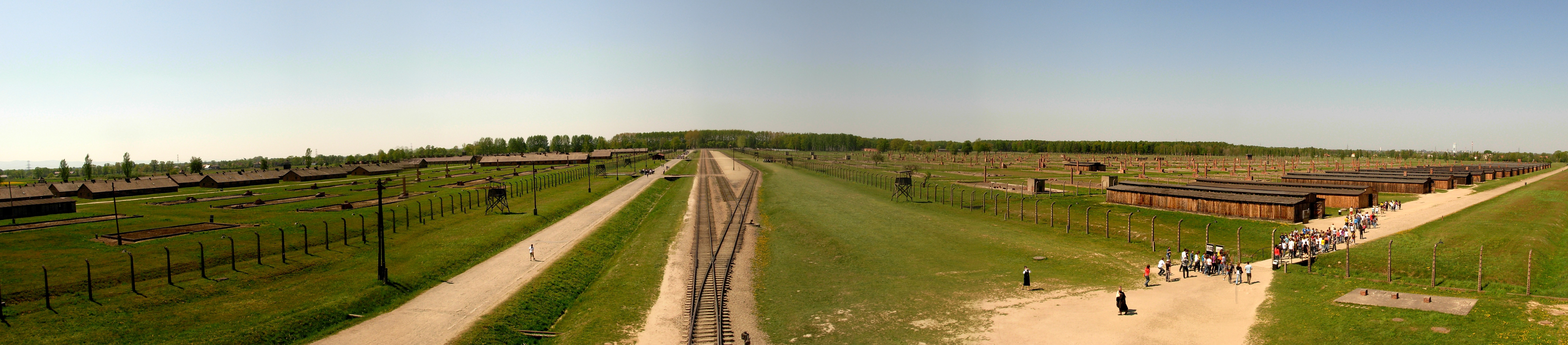 Auschwitz (Birkenau) concentration camp - panorama